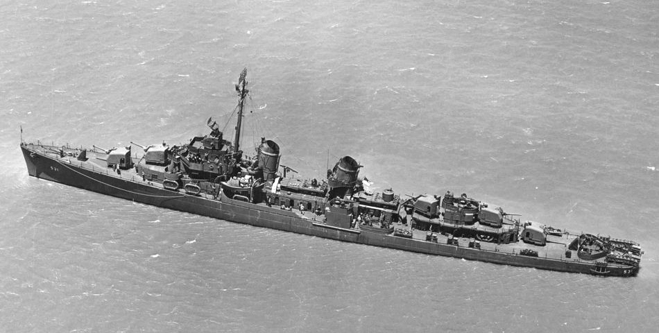 The U.S. Navy destroyer USS Hazelwood (DD-531) in 1943.